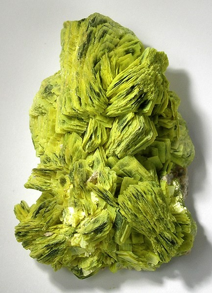 Meta-autunite Locality: São Pedro claim, Malacacheta, Mucuri valley, Minas Gerais, Southeast Region, Brazil (Locality at ) Size: 4.5 x 3.0 1.7 cm. A STRIKING and AESTHETIC specimen of rosettes and books of lustrous, lemon-yellow autunite blades from well-known Sao Pedro Claim, Malacacheta, Brazil. An outstanding example of this species from this locality. Ex. Elling collection. SPECTACULAR lemon-yellow fluorescence.